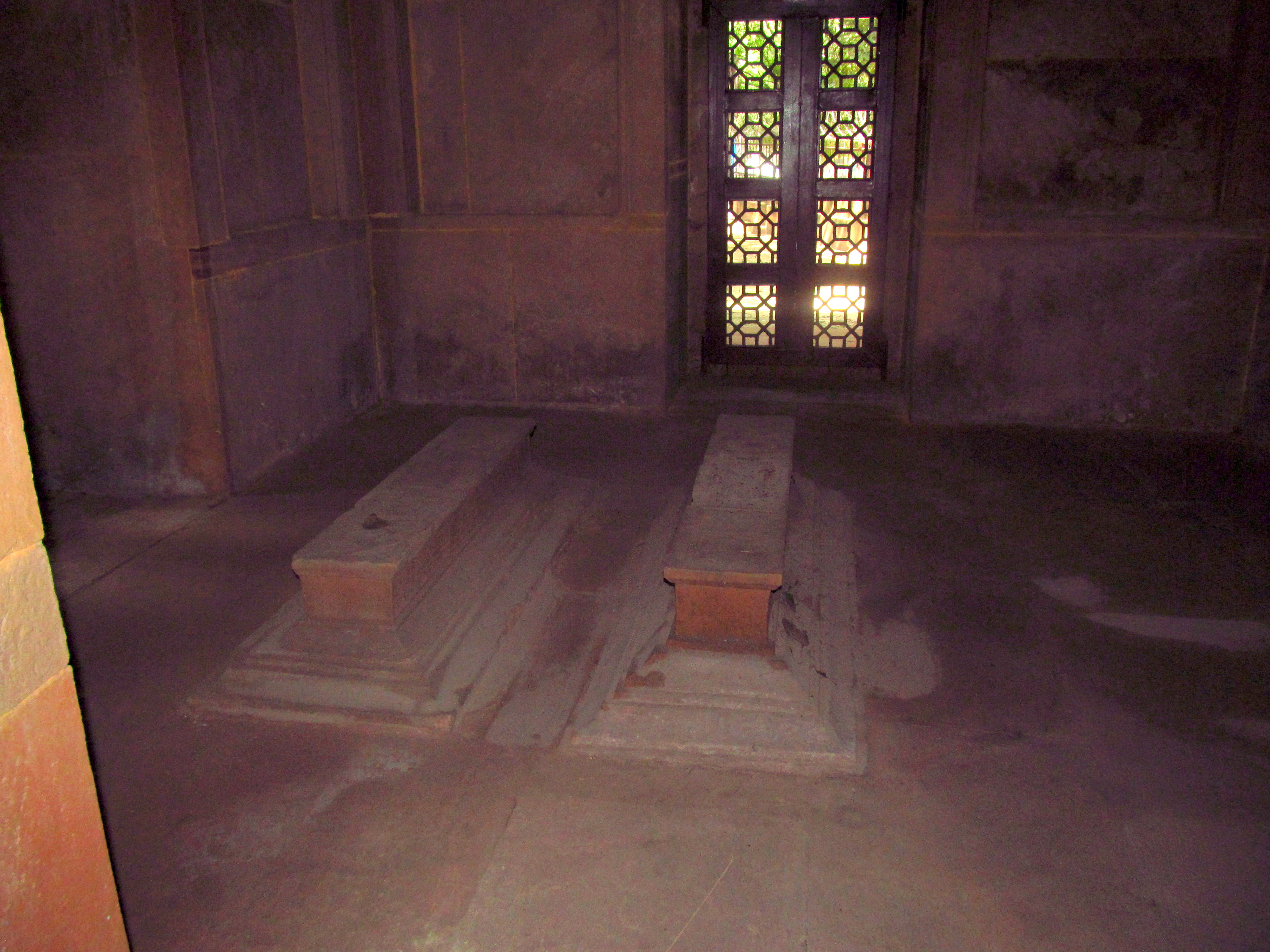 Graves of Lal Kunwar (mother) and Begam Jaan (Daughter). Begum Jaan was the daughter of Shah Alam Second who had ruled Mughal India in early 19th century.